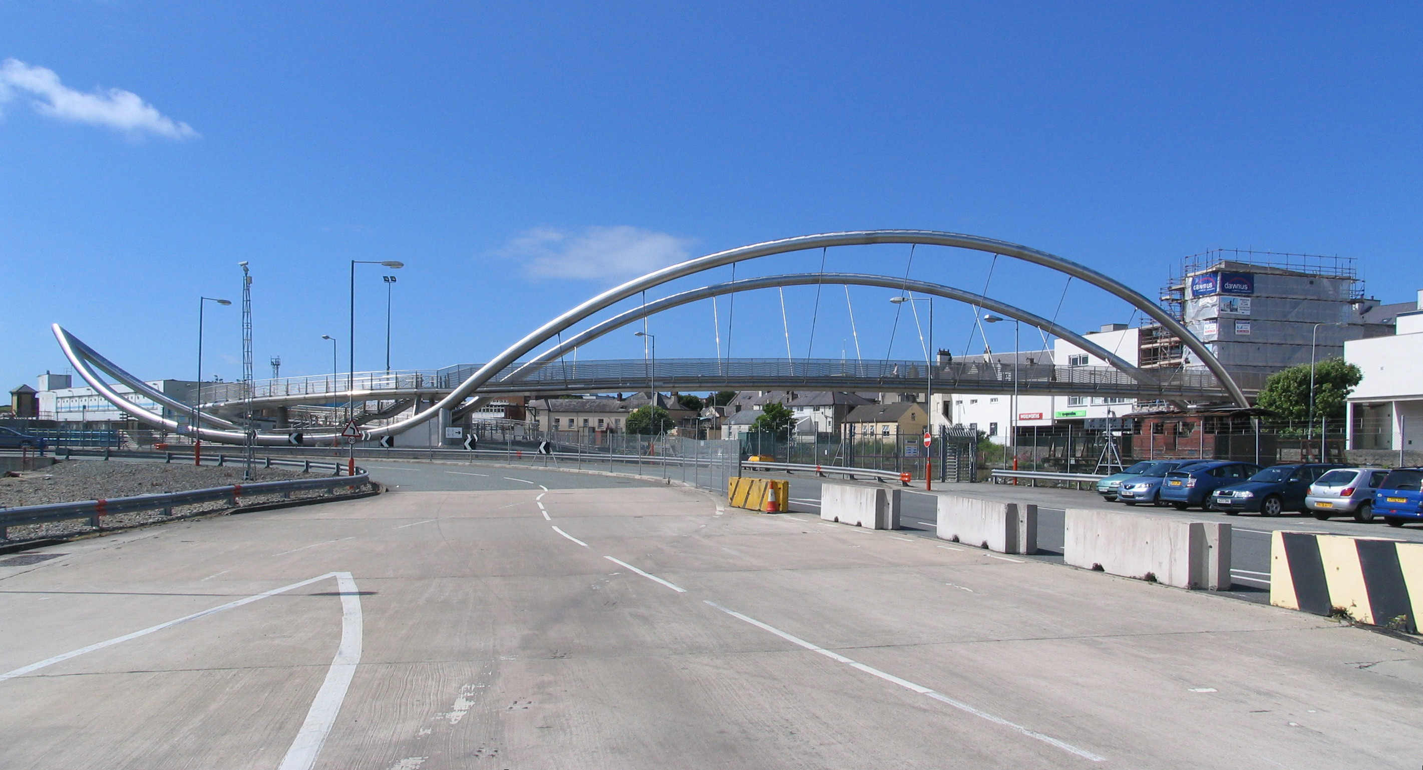 The Celtic Gateway Footbridge in Holyhead, seen from the ferry terminal to Ireland.